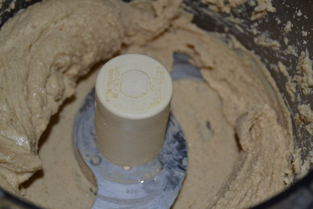 Created for this article